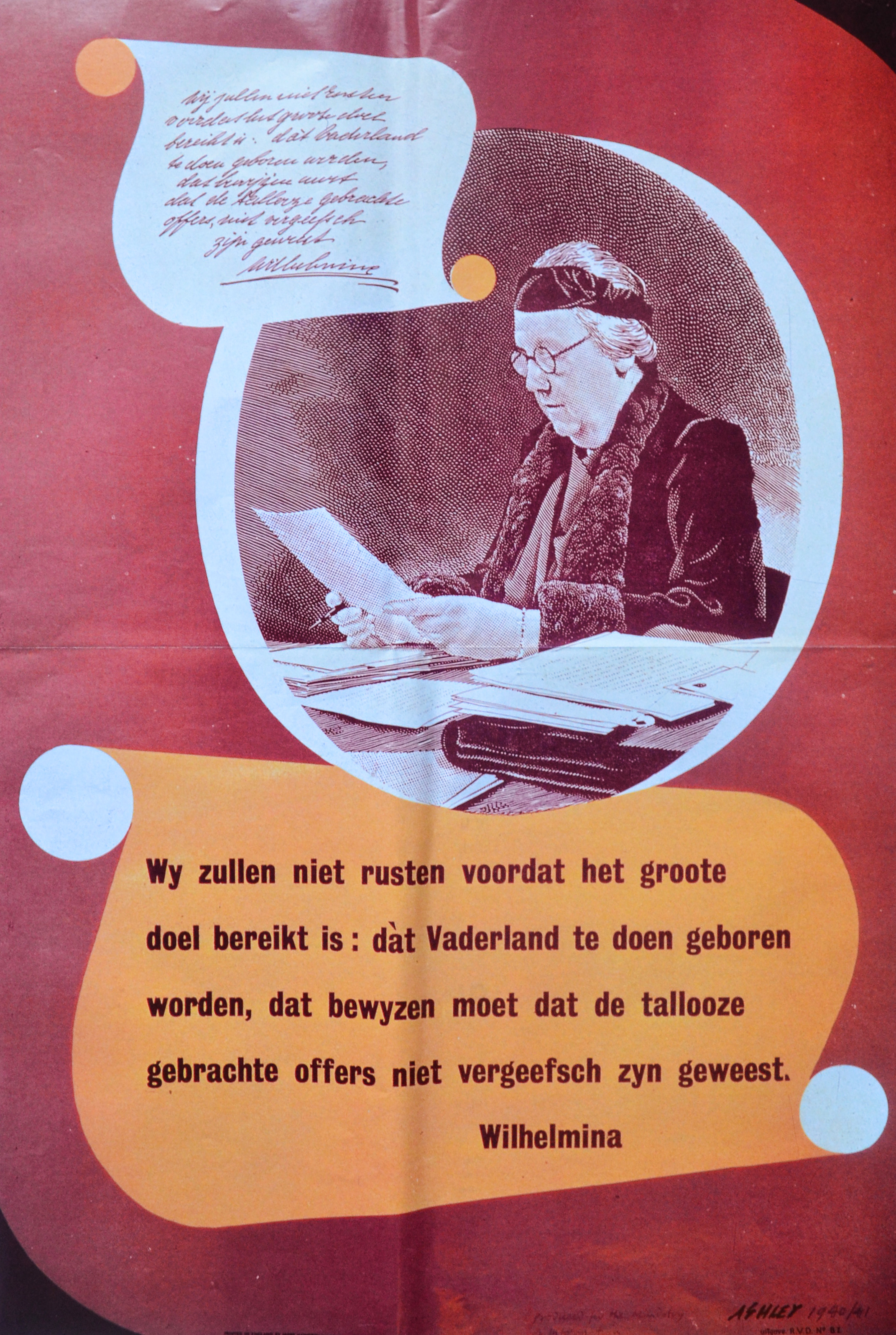 WW2 Dutch Propaganda Poster with speech Wilhelmina to the people of the Netherlands from 1944